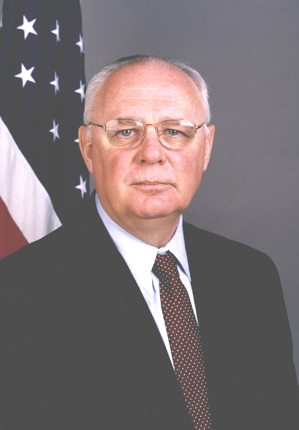 James W. Pardew former Ambassador of the United States to Bulgaria and U.S. negotiator of the Framework Agreement in Macedonia